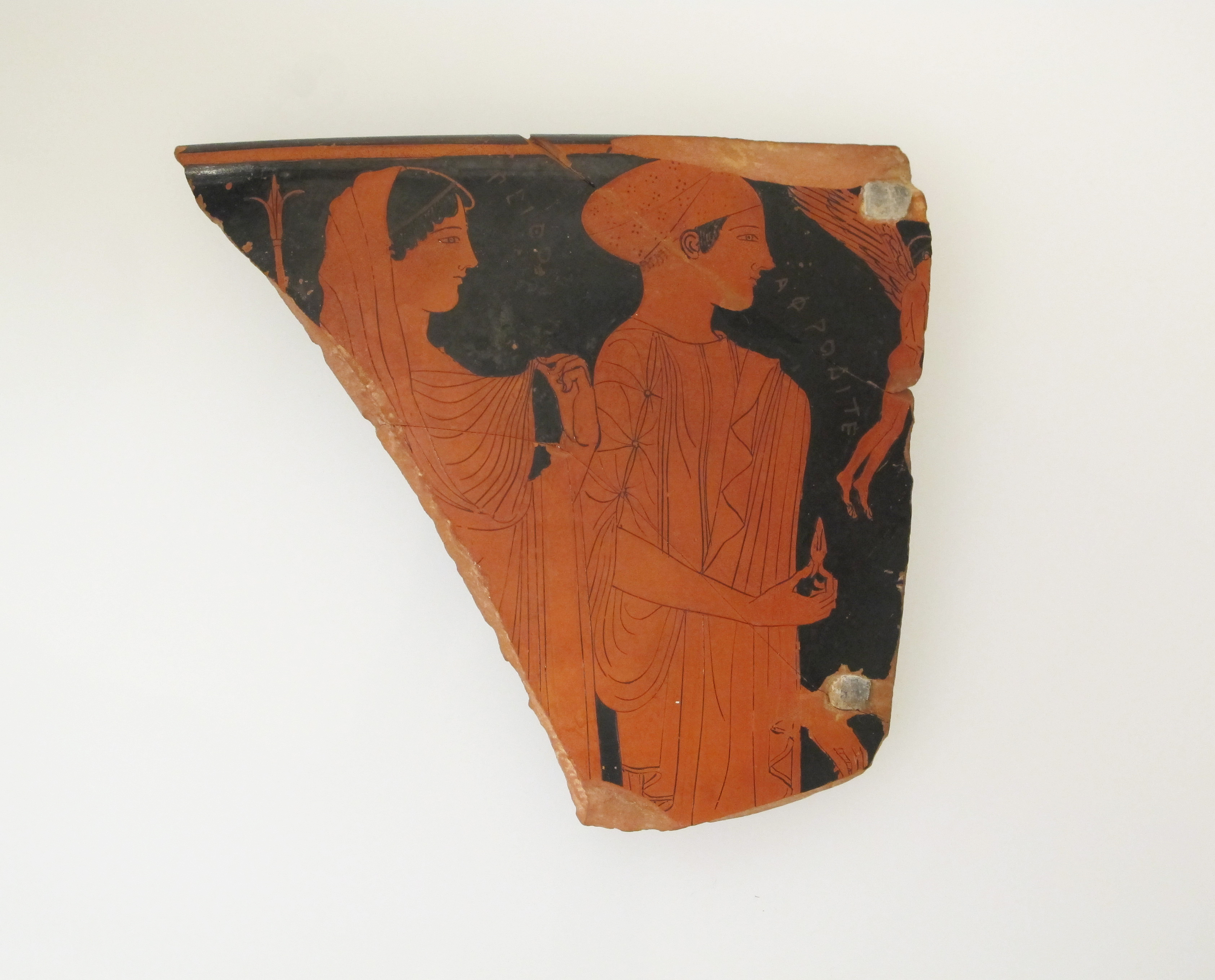 Peitho (the personification of persuasion), Aphrodite, and Eros. These three figures belonged to a representation of either the Judgement of Paris or Menelaos reclaiming his wife, Helen, at Troy. At this time, large skyphoi were favored for elaborate mythological decorations, especially by painters around Douris and Makron. The ladies are exceptionally grand and statuesque.